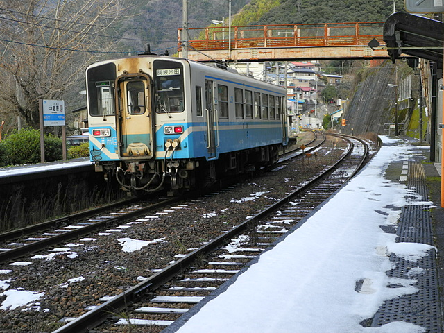 Tosa-Iwahara platform with a train